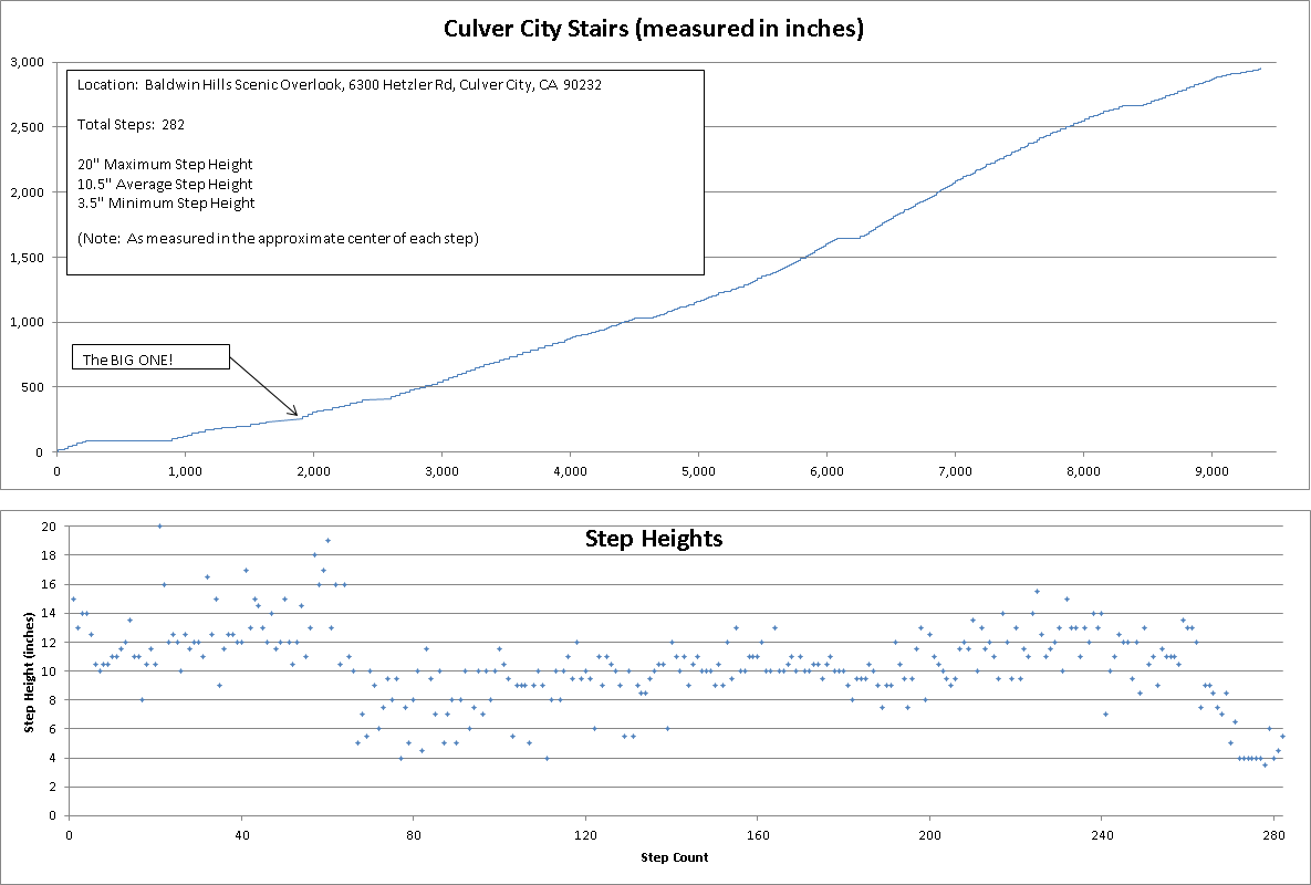 The top half of this image shows a scaled section of the Culver City Stairs measured in inches relative to each other. The bottom half shows the absolute height of each step in inches, represented by dots. This PNG version supersedes a GIF I uploaded on 2013-03-24 that was missing one step. This PNG version also eliminates 2 sloped landings since their heights were only eyeball-approximations.